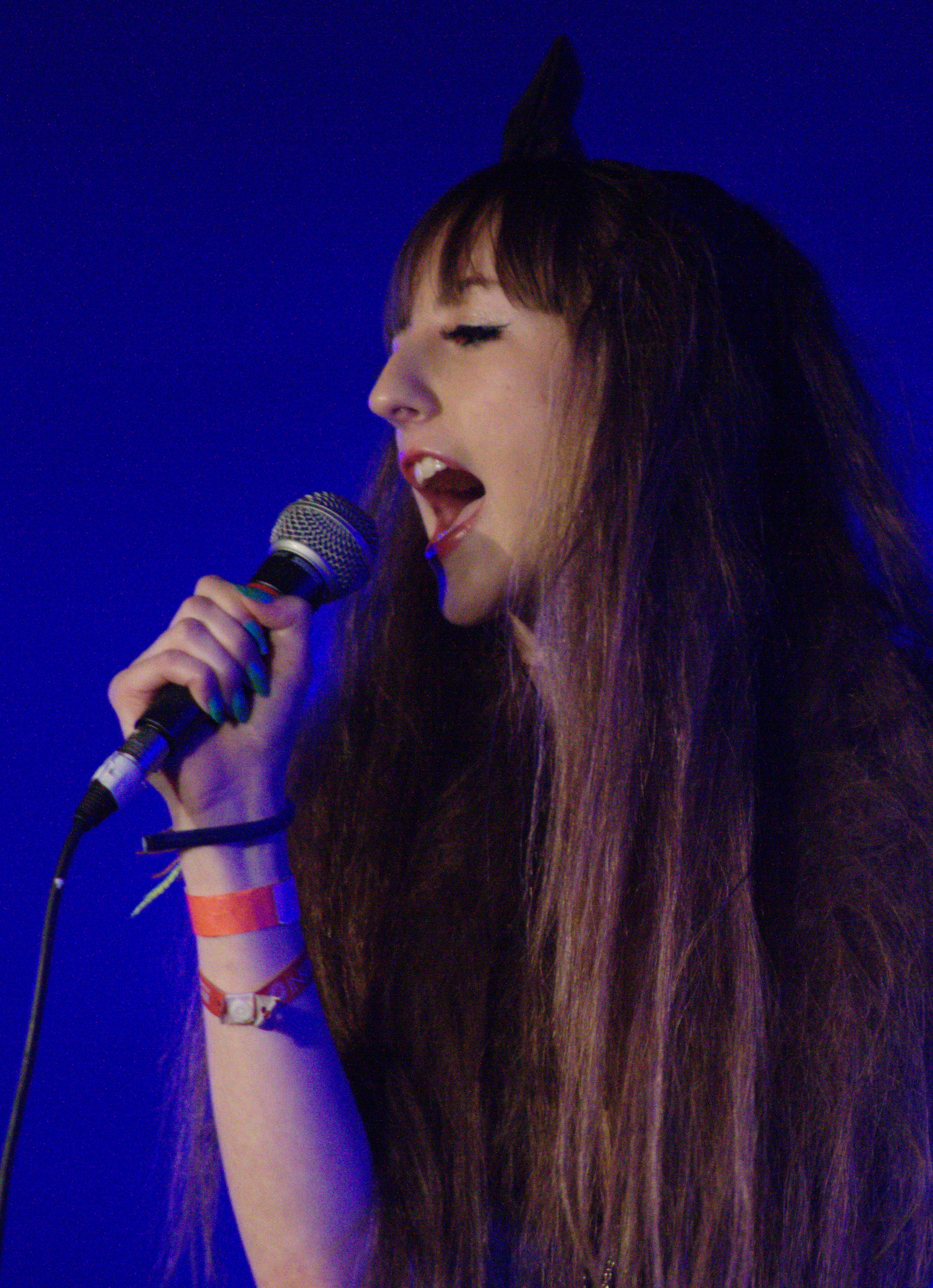 Beckii Cruel in 2014